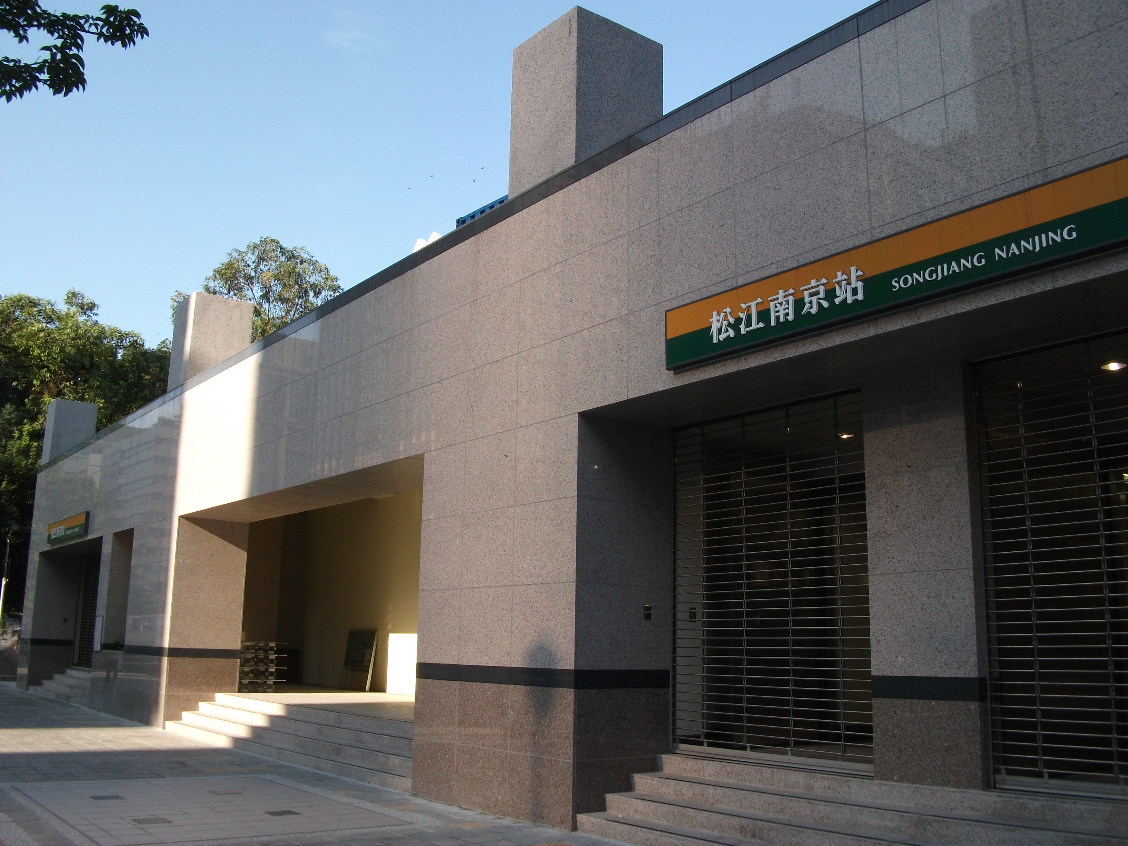 Taipei metro Orange Line Songjiang Nanjing Station Three